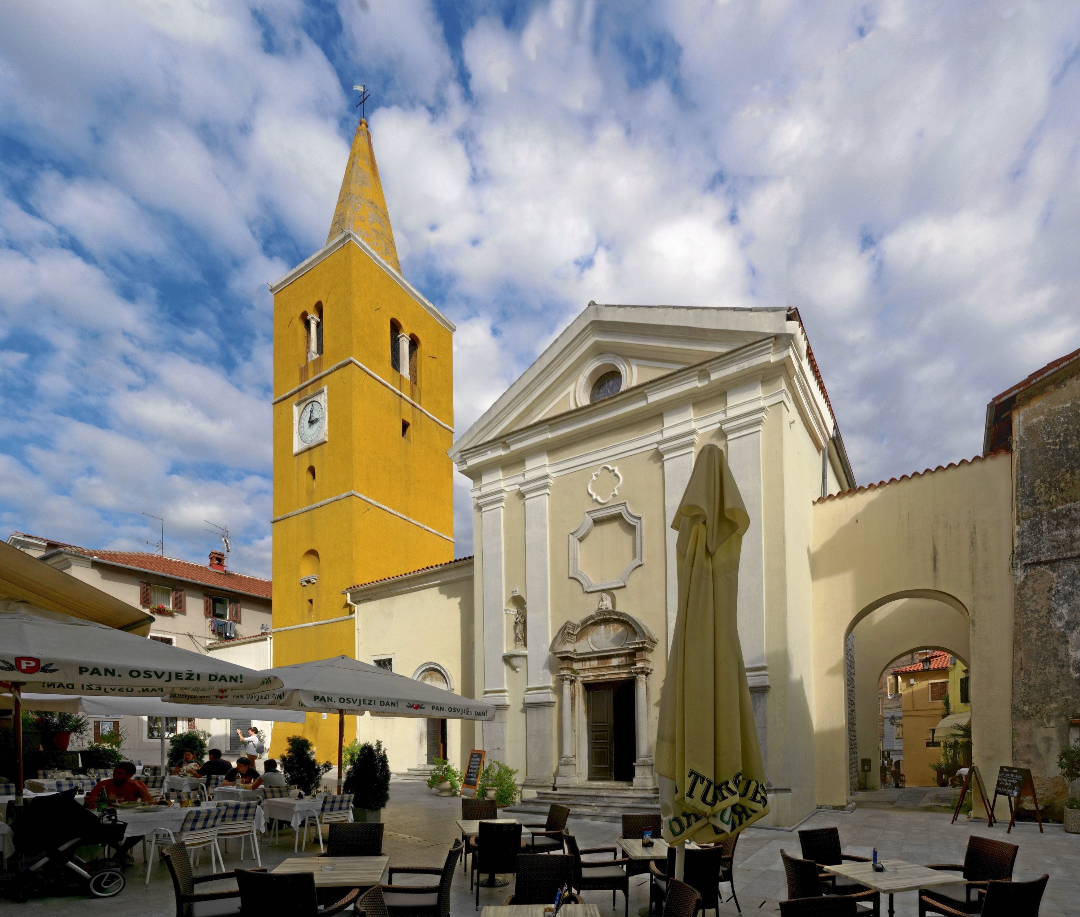 Croatia, Lovran, St. George church